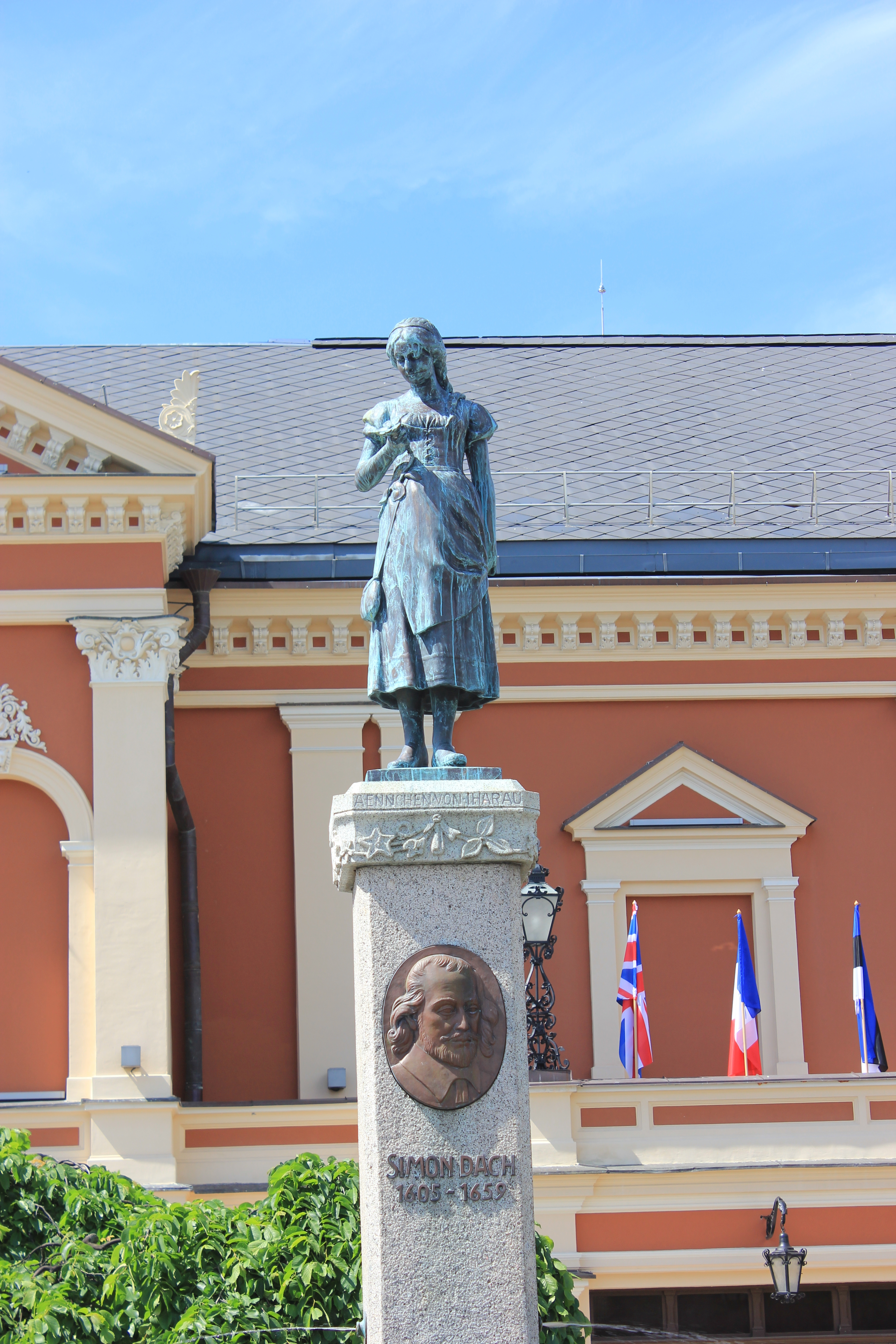 Klaipeda - Drama Theatre